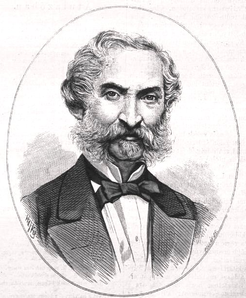 Endre Kovács Sebestény